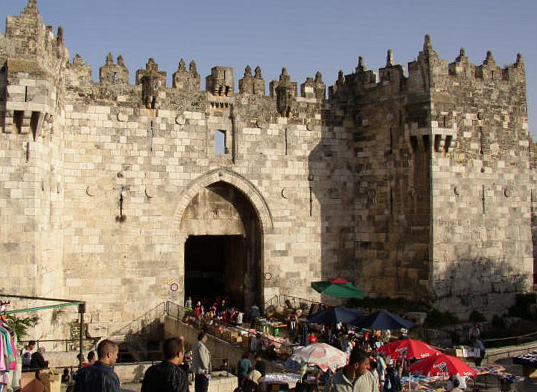 Damascus Gate (Nablus Gate, Bab al'Amoud, The Gate of the Pillar, Sha'ar Shechem) in Jerusalem